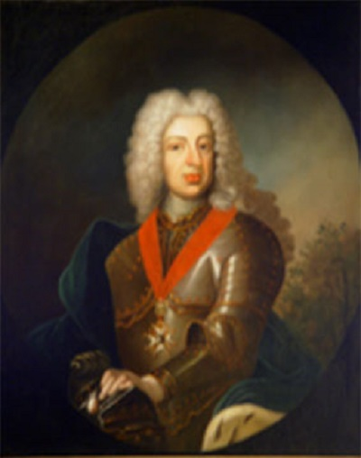 Portrait of Louis George, Margrave of Baden-Baden (1702-1761)